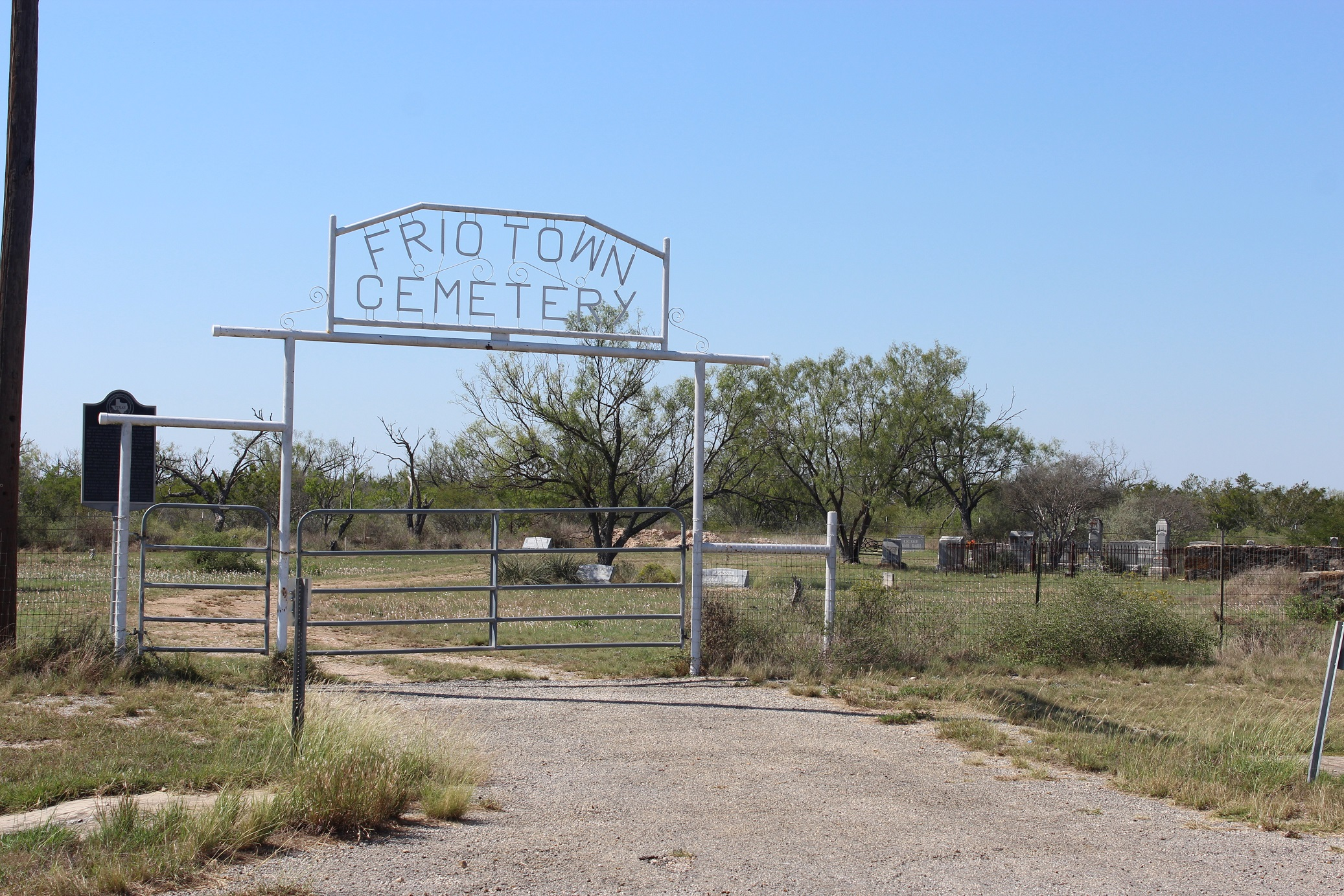 Frio Town Cemetery. Founded in 1871, Frio Town served as the first county seat of Frio County. A courthouse was built in 1876, and a number of families built homes in the area. The International and Great Northern Railroad built a line from San Antonio to Laredo in 1881, bypassing Frio Town. By 1883 the new town of Pearsall (16 mi. E) on the rail line became the new county seat. One of the few physical reminders of the historic Frio Town community, this cemetery stands as a testament to the county's early pioneer history. The first burials occurred in 1873, when Calvin Massey (1797-1873) was killed by Indians, and Robert Wesley Hiler (1855-1873) died in a horse riding accident. Among the pioneer settlers interred here are Ben (1813-1893) and Minerva (1817-1895) Slaughter and their descendants, as well as members of the Roberts, Hiler, Little, Loxton, Taylor, Hattox, Blackaller, and Minus families. A number of early graves are unmarked. Six men killed in an Indian raid on the William J. Slaughter sheep ranch in 1876 are buried together in a row of graves. The cemetery also contains the burials of a number of infants and small children, a reflection of harsh conditions on the frontier. (1991) #2066